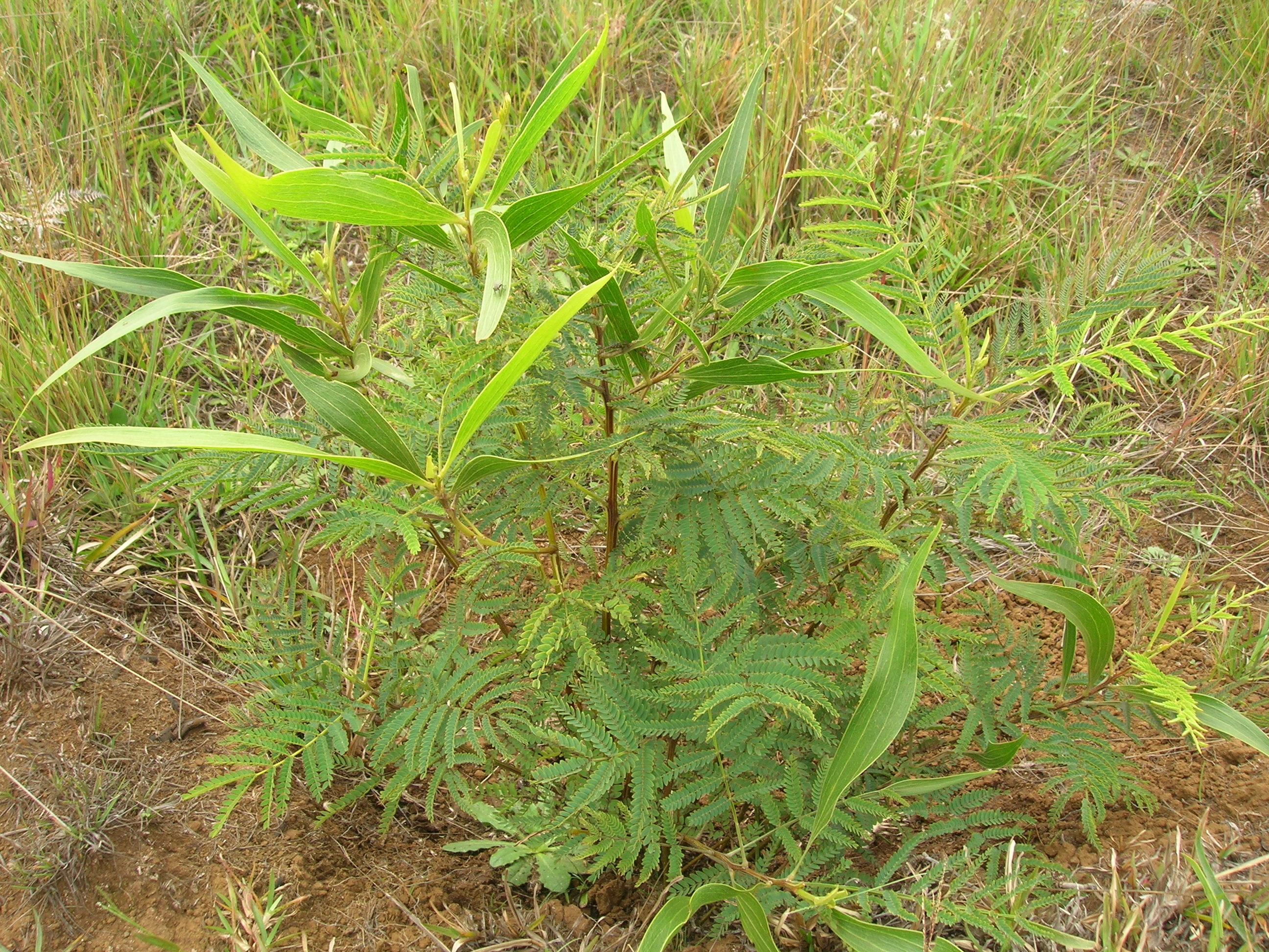 Acacia koa (juvenile and adult leaves). Location: Maui, Haleakala Ranch